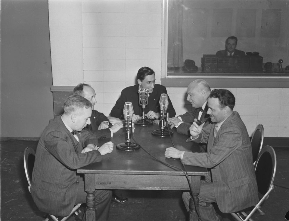 Group of four guests in the studio with the announcer Roger Baulu during the show "Le Mot S.V.P." broadcast by C.B.C. (Radio-Canada) in Montreal.